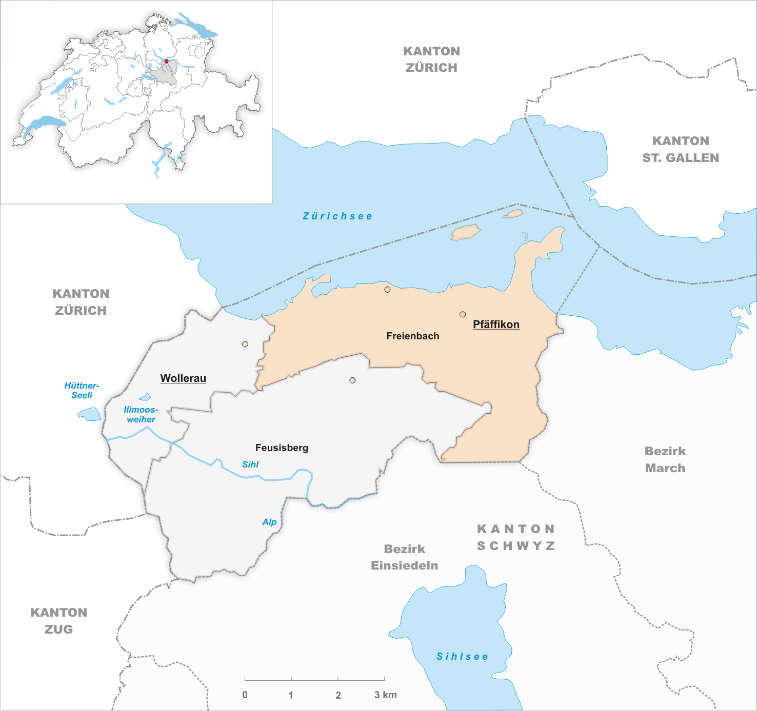 Municipality Freienbach